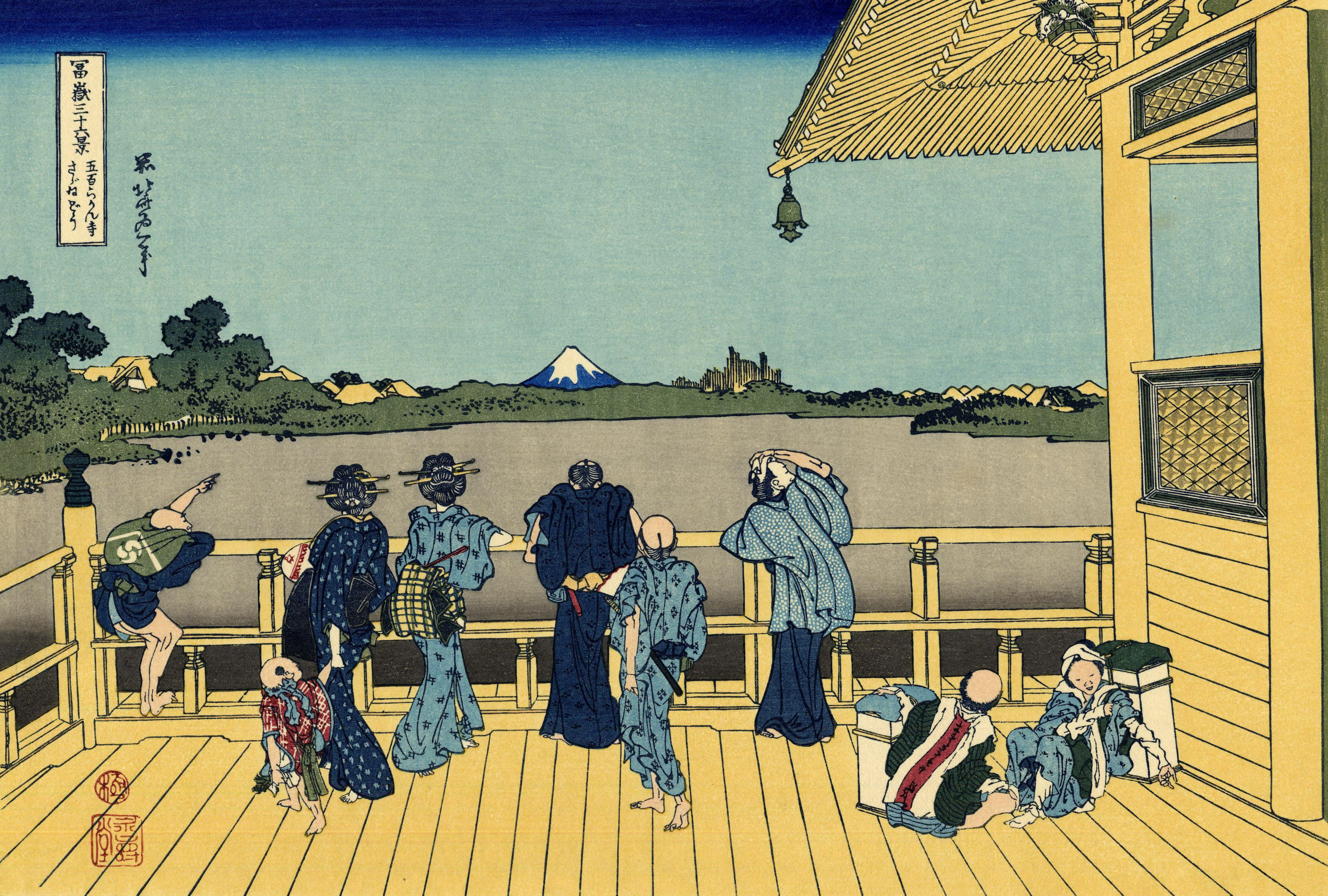 Part of the series Thirty-six Views of Mount Fuji, no. 07.